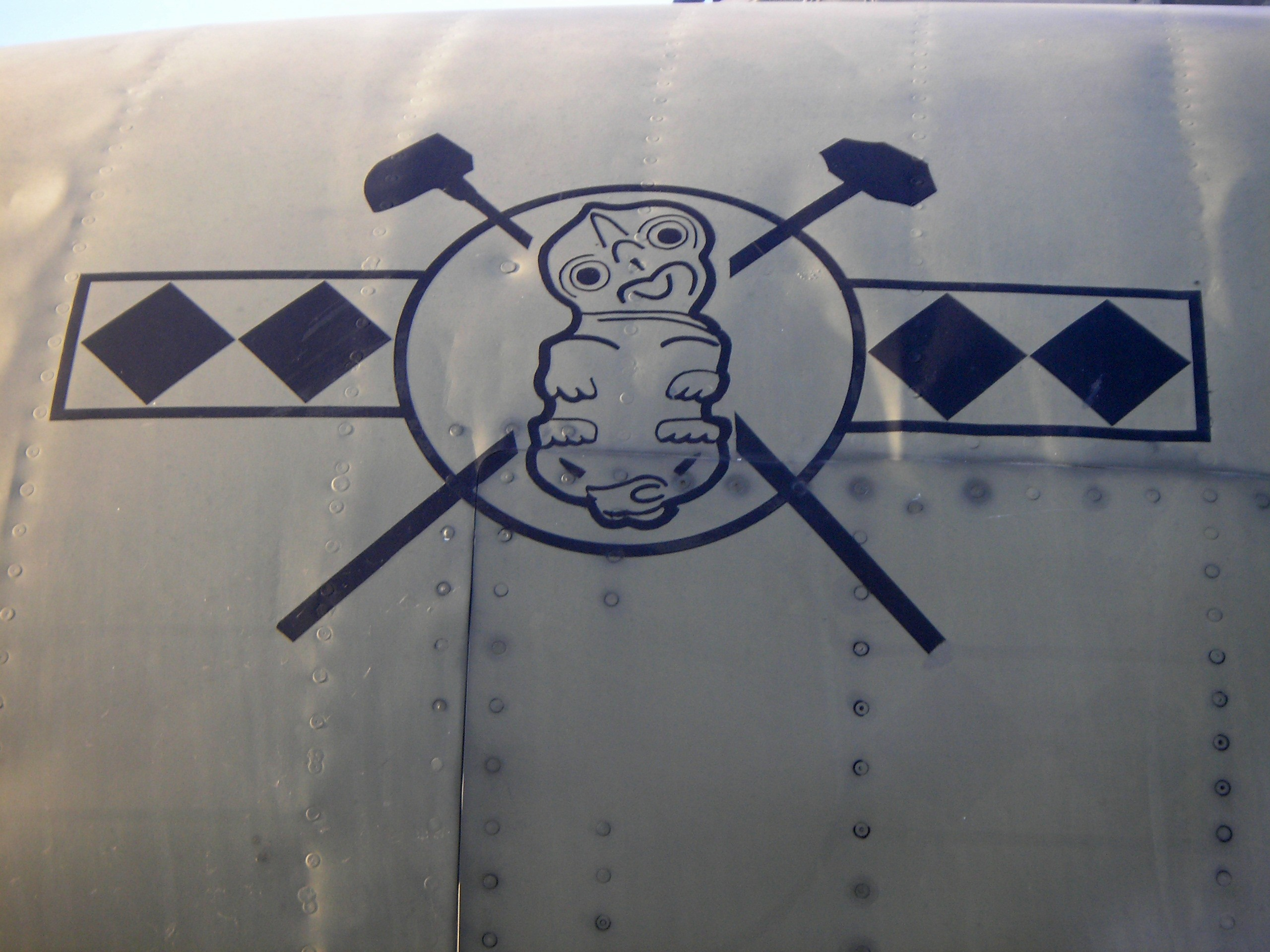 Badge of No.75 Squadron RNZAF (showing a 'Tiki', a typical Maori figure usually worn as a carved necklace). Photographed in Low vis scheme on a preserved Kahu Skyhawk in May 2007.